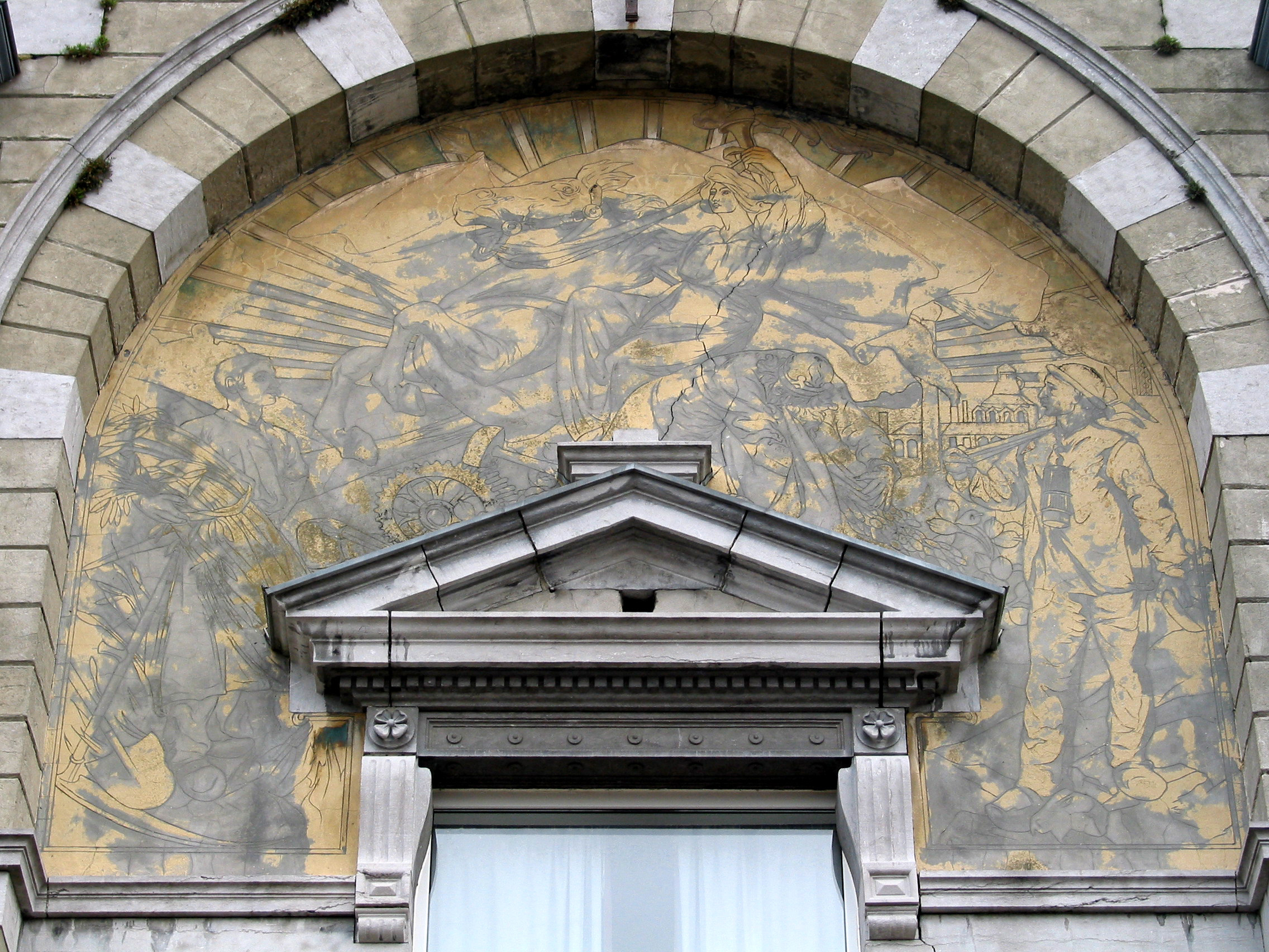 Pâturages (Belgium), Sgraffite (made by the architect-decorator Paul Cauchie) on the "Maison du Peuple" (1898 - architect: Eugène Bodson).